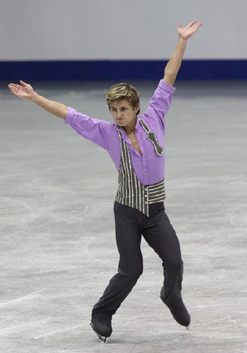 Artem GRIGORIEV short program at the 2009 World Junior Figure Skating Championships